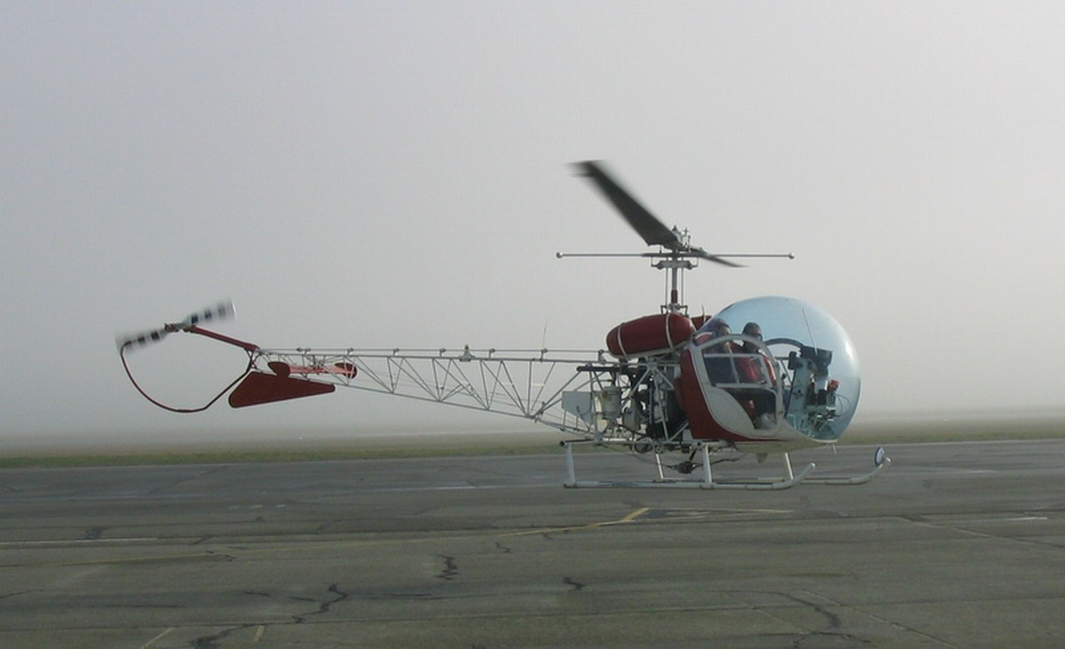 Bell 47G photo by Meggar